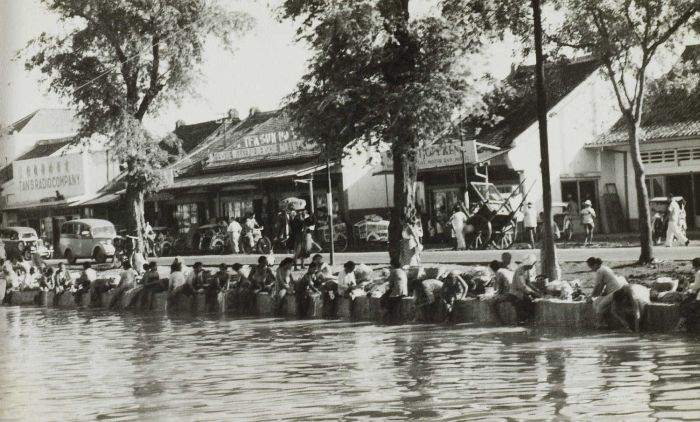 Het wassen van kleding langs de Molenvliet, Batavia